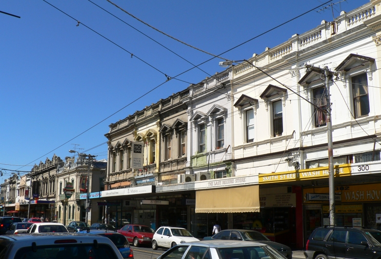 Smith Street Collingwood looking North